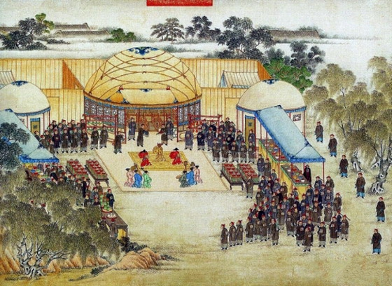 The depossed Vietnamese Emperor Lê Chiêu Thống meeting with officials from the Chinese Army around modern Hanoi, 1789.